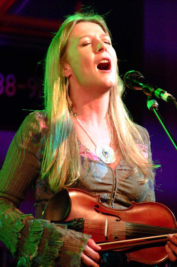 Musicians Cambridge Festivals 2001-2014